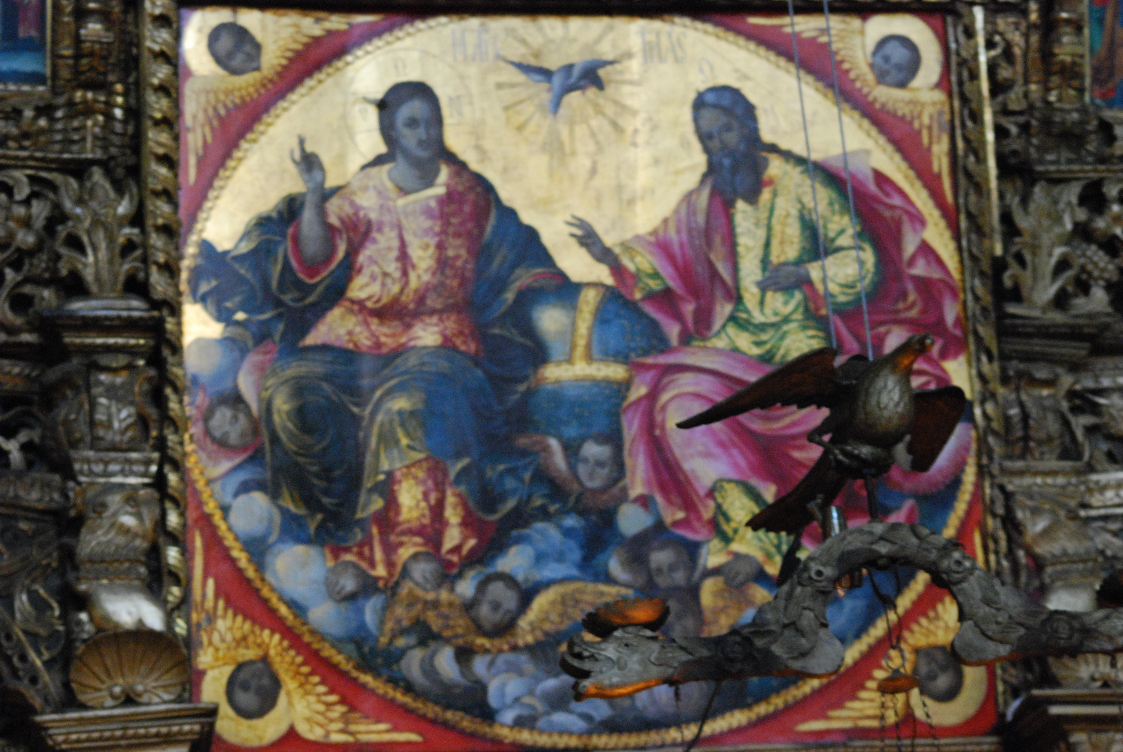 St. Demetrius Church in Bitola, Macedonia